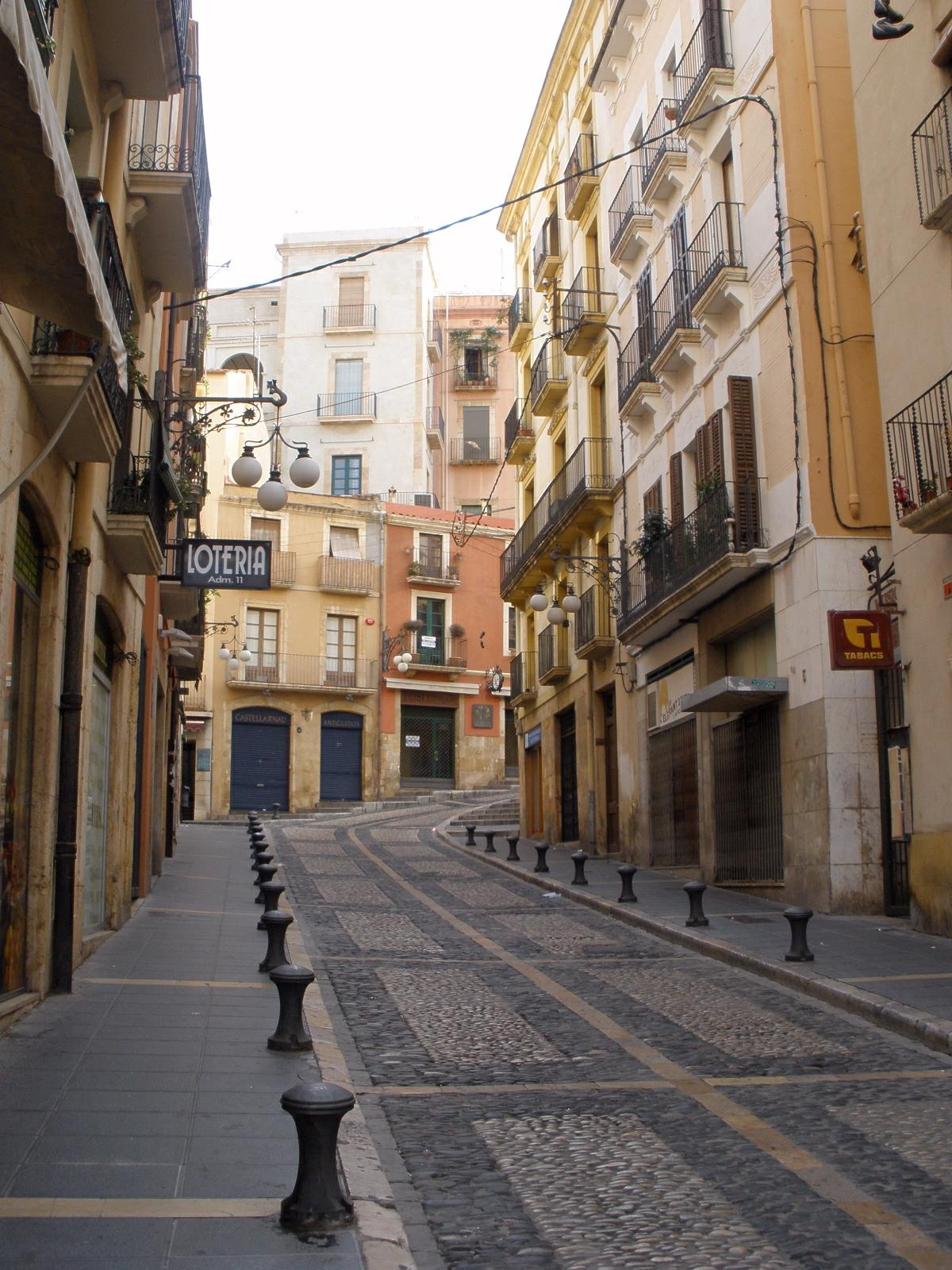 Carrer Major de Tarragona (Cataluña, España)